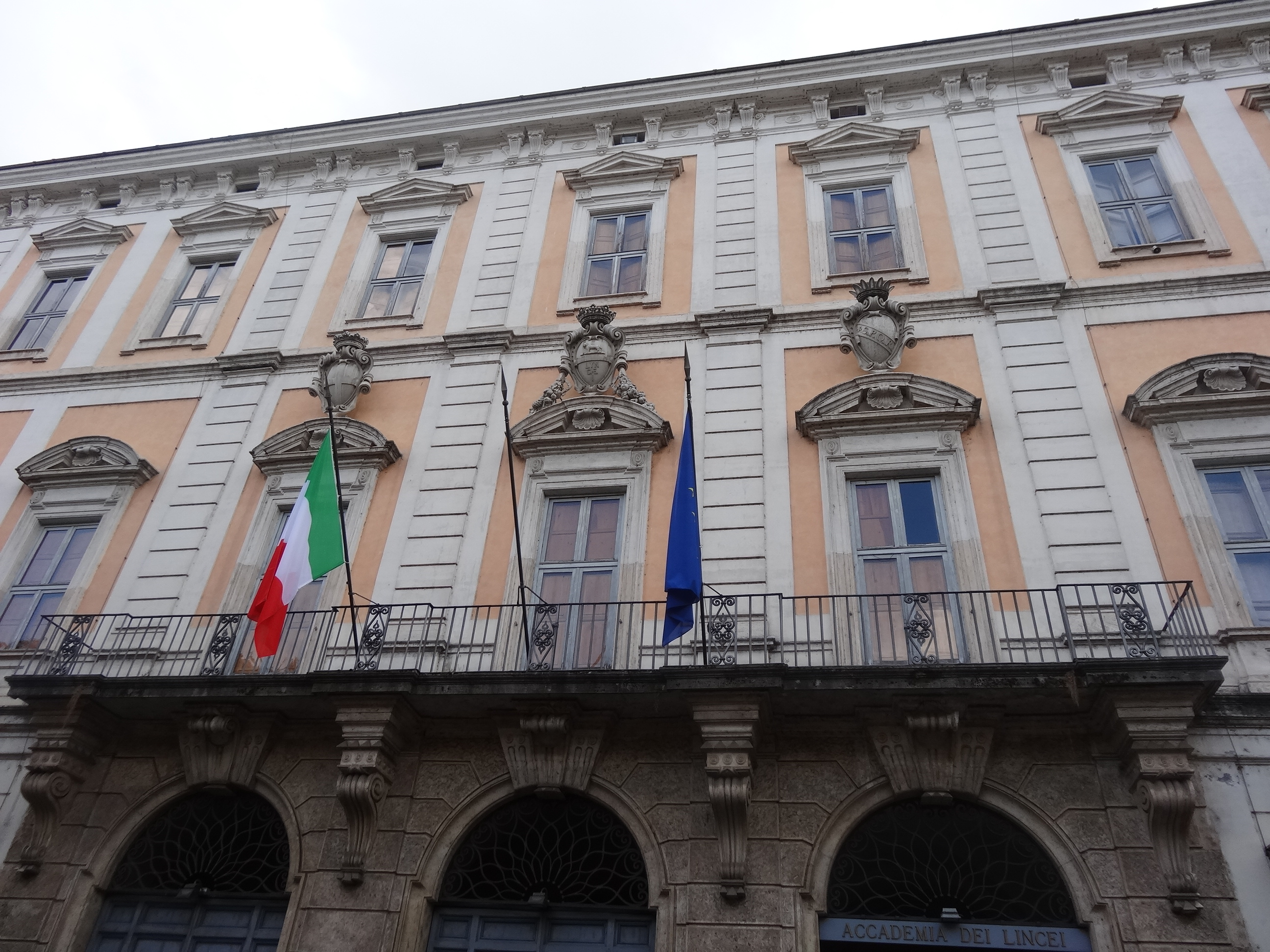 Palazzo Corsini